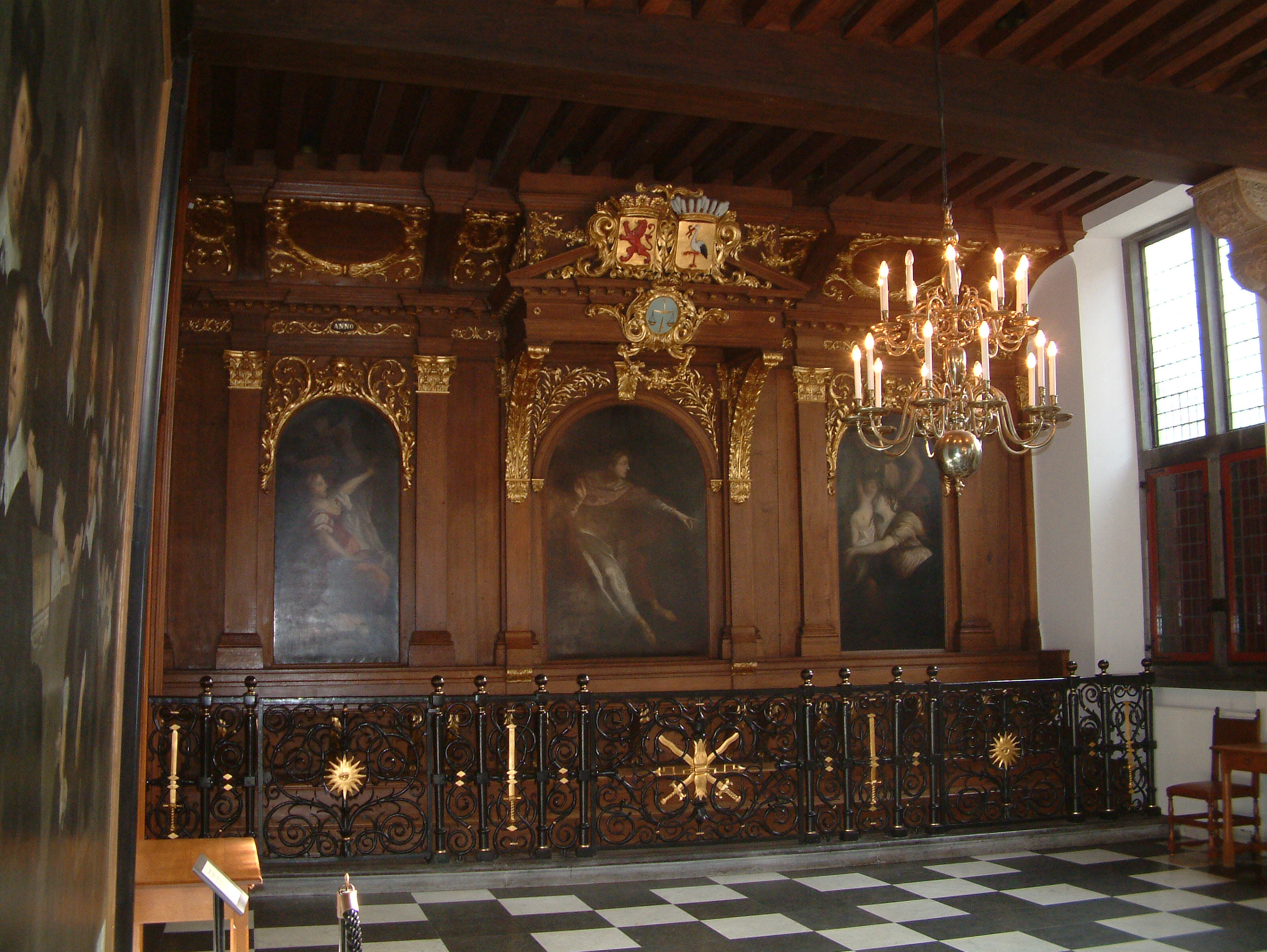 The old townhall of The Hague, wooden sculpted court with 3 paintings by the Hague painter Willem Doudijns depicting the Judgement of Salomon from 1671. This tag does not indicate the copyright status of the attached work. A normal copyright tag is still required. See Commons:Licensing.